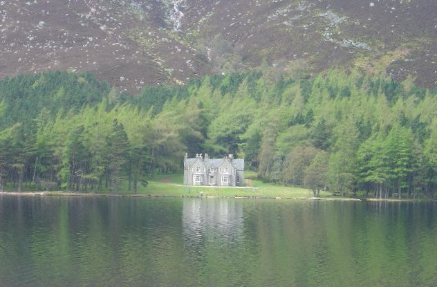 Glas Allt Shiel on the banks of Loch Muick, built on the orders of Queen Victoria as a remote getaway